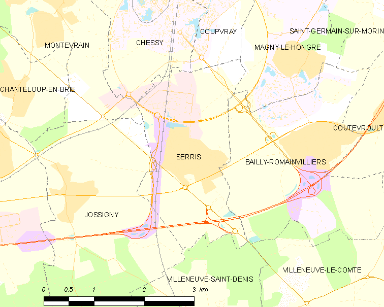 Map of French municipality Serris